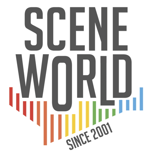 Scene World Magazine logo